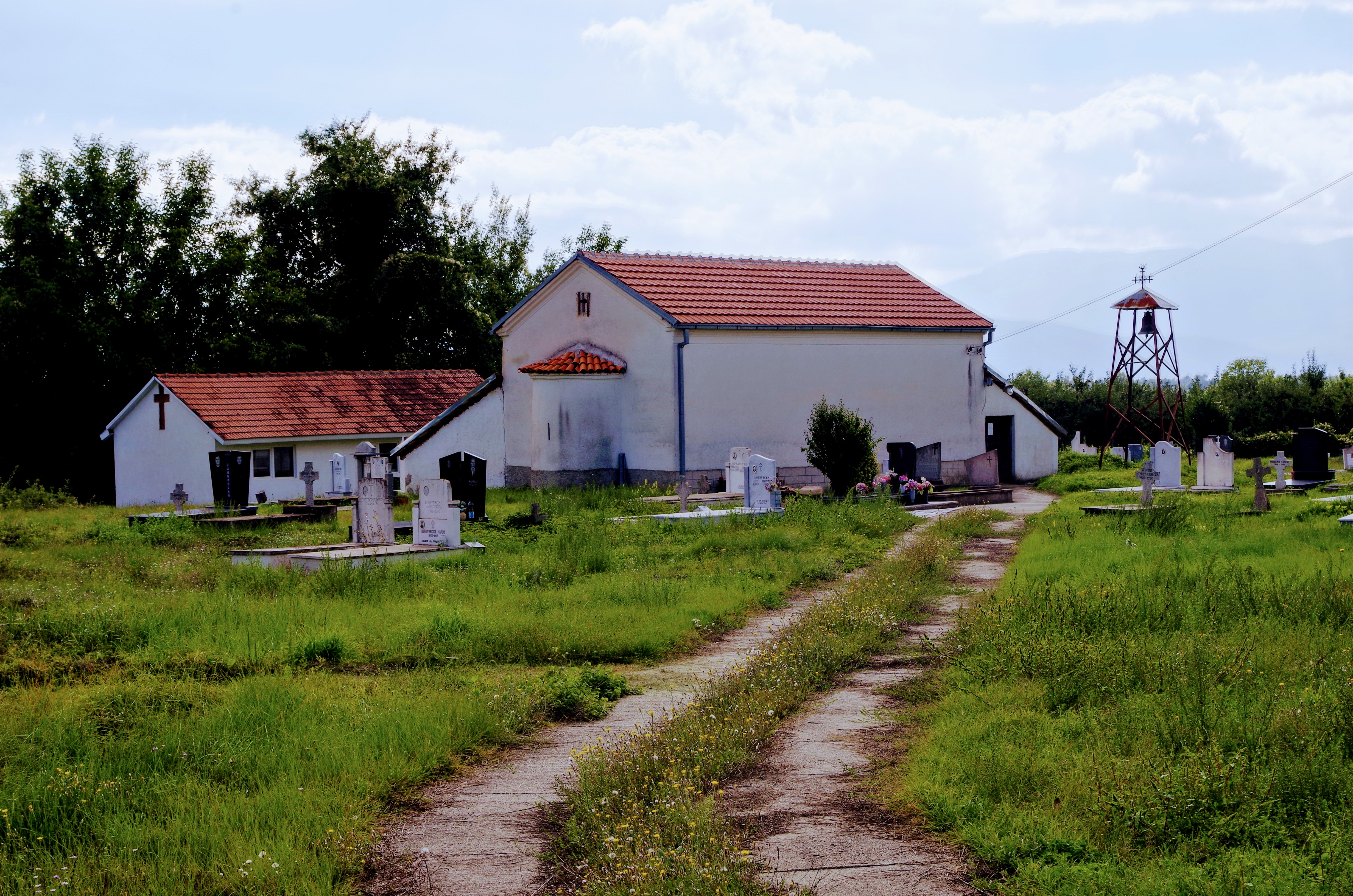 View of the St. Athanasius Church in the village Grnčari